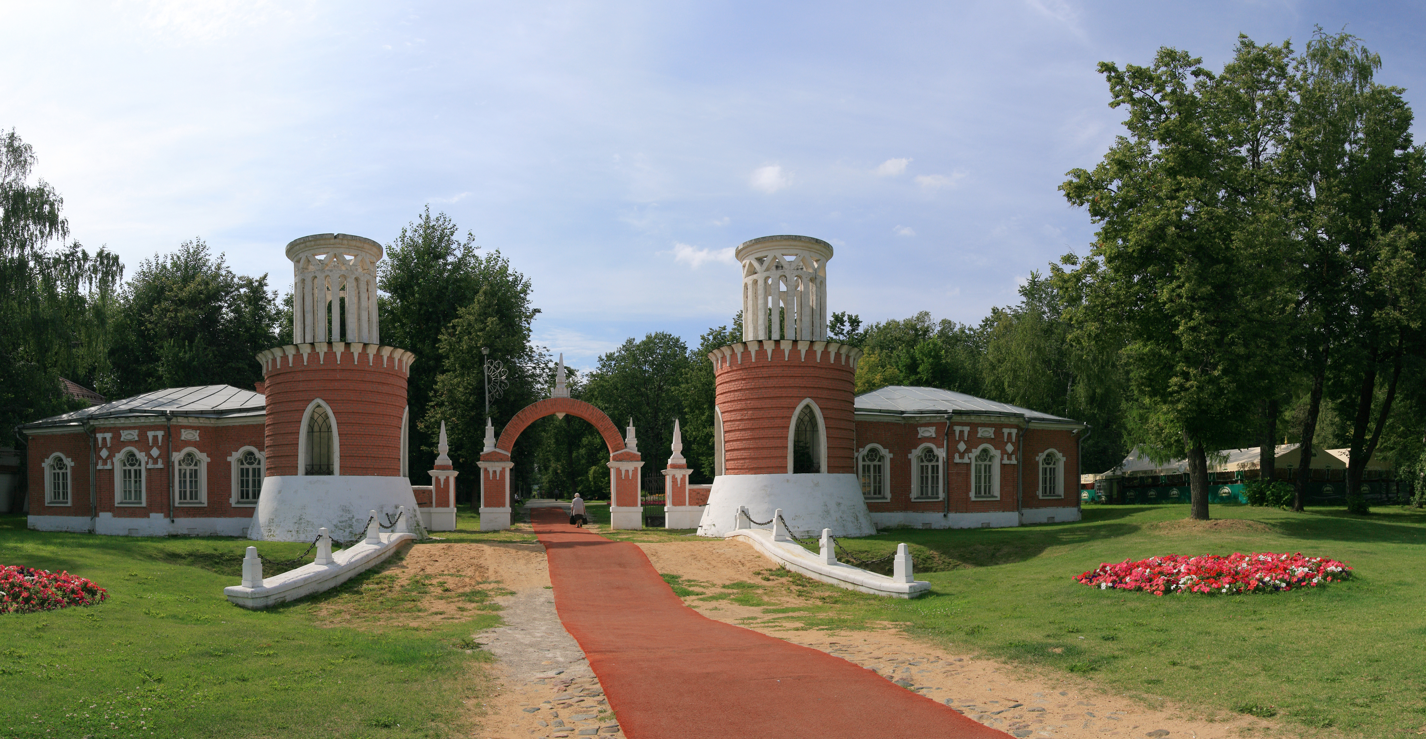 The entrance to the Vorontsovo manor Park, Moscow